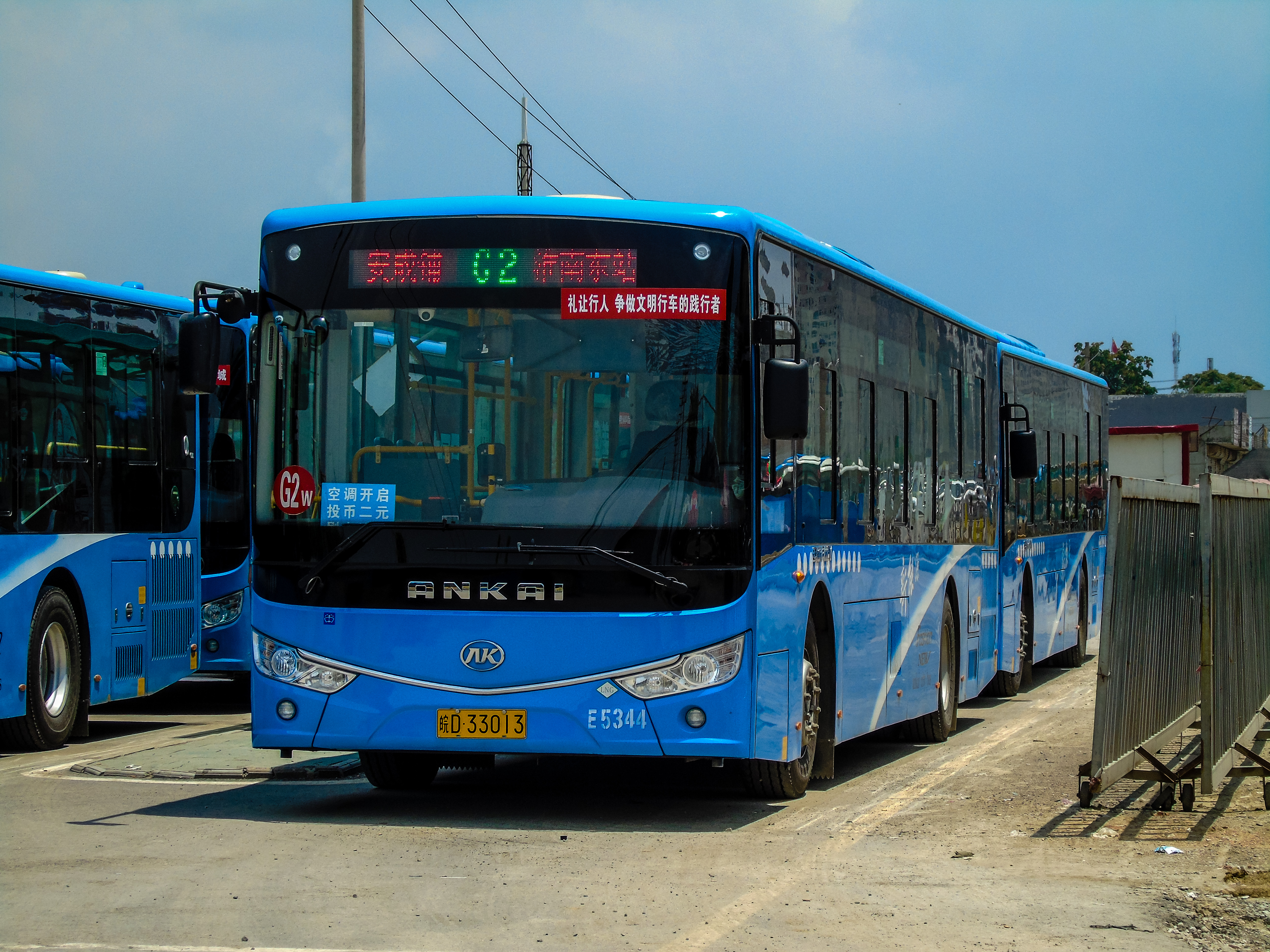 Huainan Bus No.G2